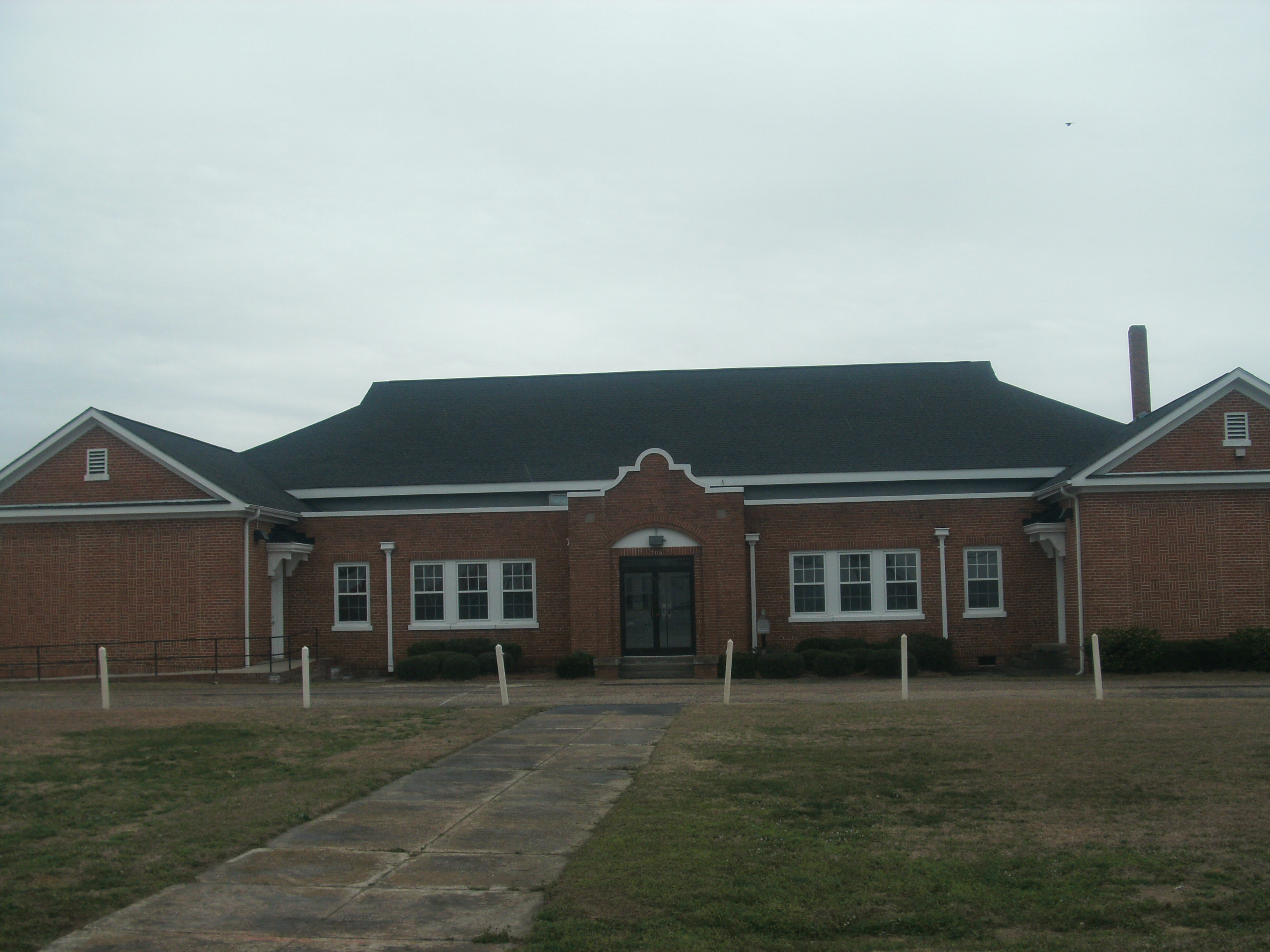 Colored School, Williamston, North Carolina, March, 2015 GEDSC DIGITAL CAMERA